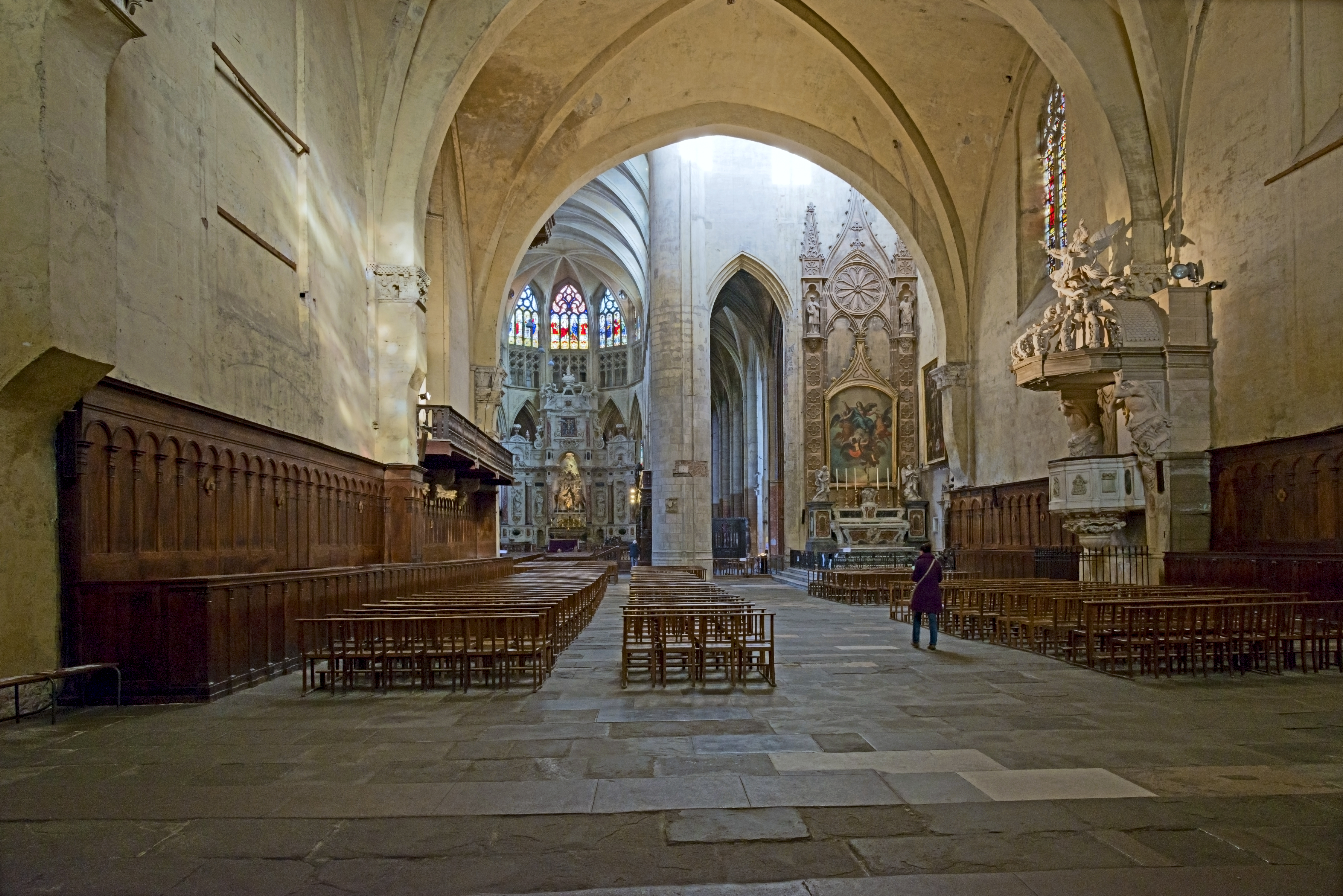 Toulouse Cathedral, ancient Roman nave said "raimondine".